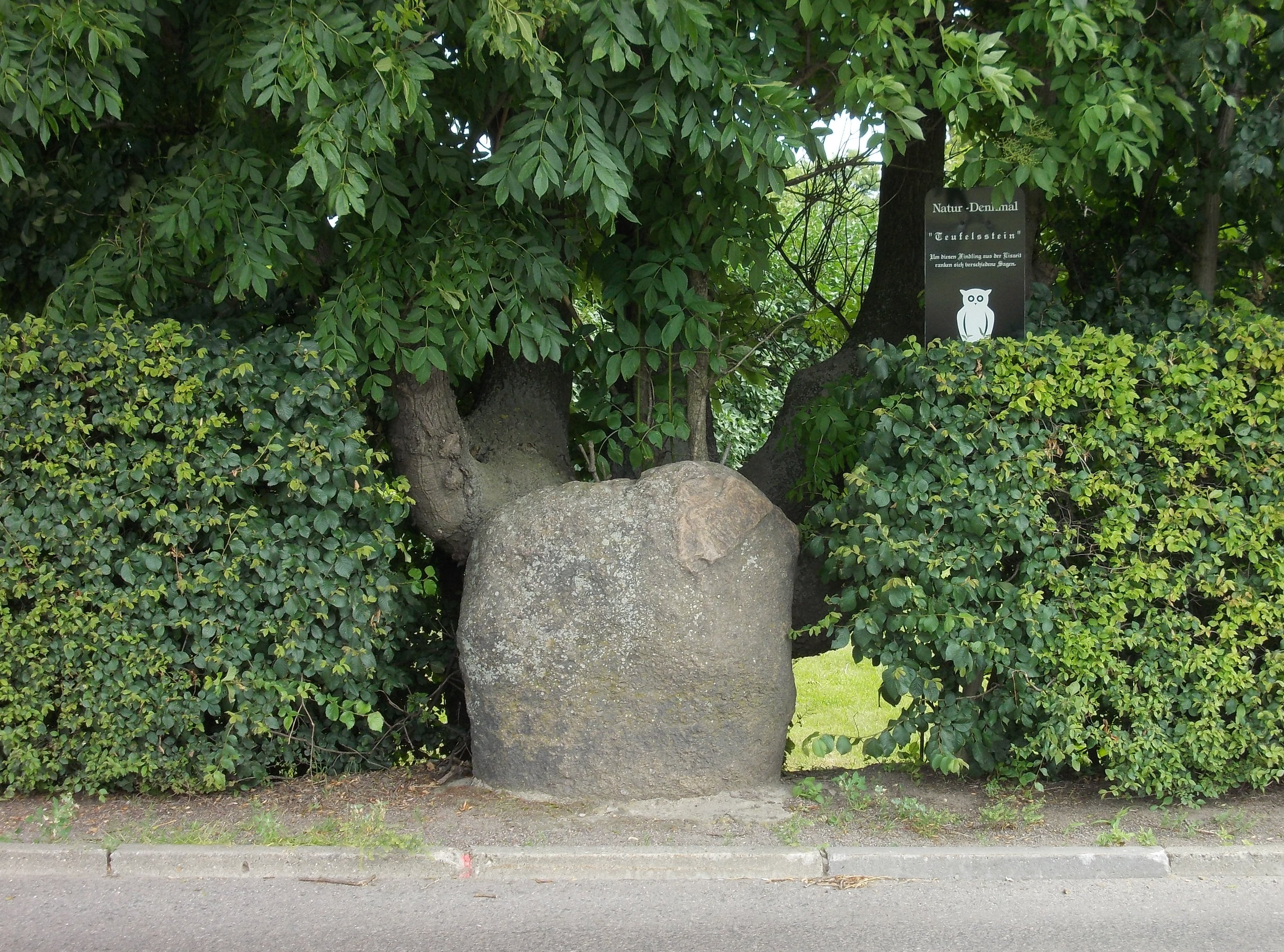 The menhir (so-called Devil's Stone) of Piltitz, a village belonging to Gütz (Landsberg, district: Saalekreis, Saxony-Anhalt)